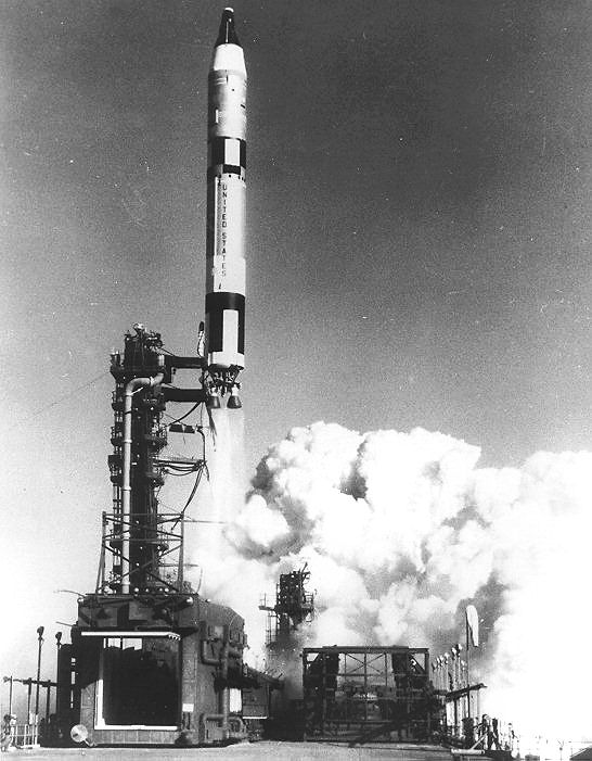 2ND UNMANNED GEMINI CAPSULE (Gemini II) LAUNCH - 19 January 1965